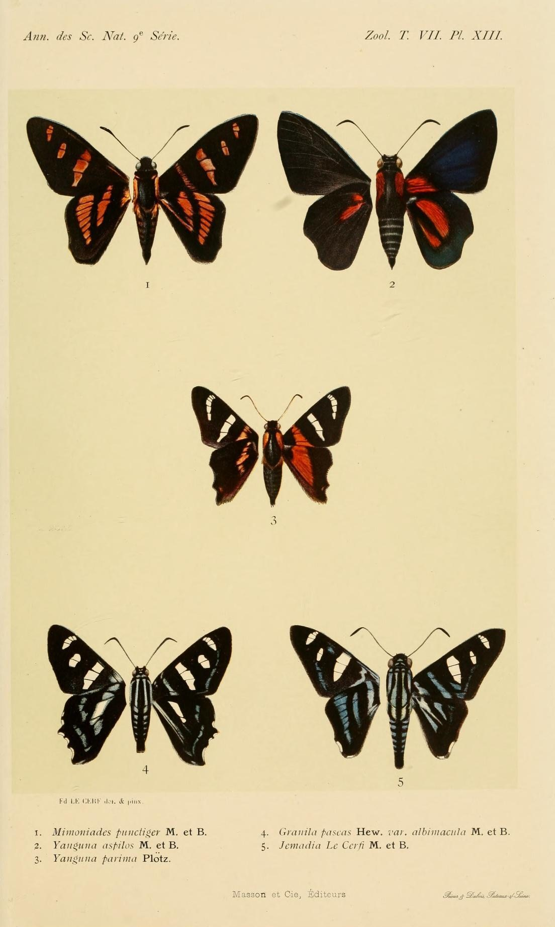 Eugène Boullet and Jules Paul Mabille Essai de révision de la famille des hespérides. Annales des Sciences naturelles (Zoologie) (9)7(4/6): 167 207, plate 13 Mimoniades punctiger (Mabille & Boullet, 1908) synonym for Mimardaris porus porus (Plötz, 1879) Yanguna spatiosa aspilos Mabille & Boullet, 1908 Yanguna parima synonym for Aspitha aspitha parima (Plötz, 1886) Granila paseas (Hewitson, 1857)var. albimacula Mabille & Boullet, 1908 Jemadia le cerfi Mabille & Boullet, 1908 synonym for Jemadia hewitsonii hewitsonii (Mabille, 1878)